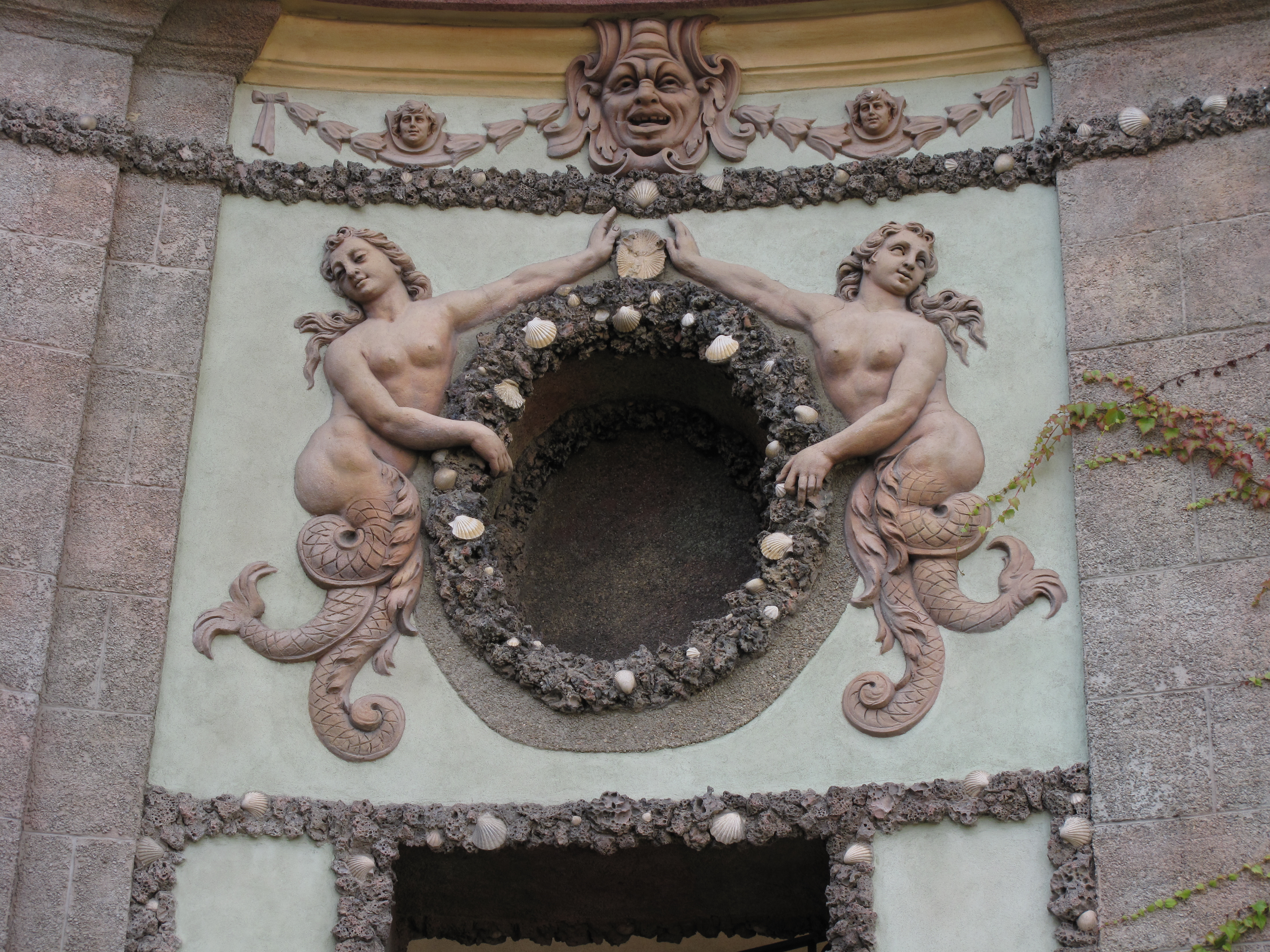 Vrtba Garden - different parts, Prague, Lesser Quarter, Czech Republic.